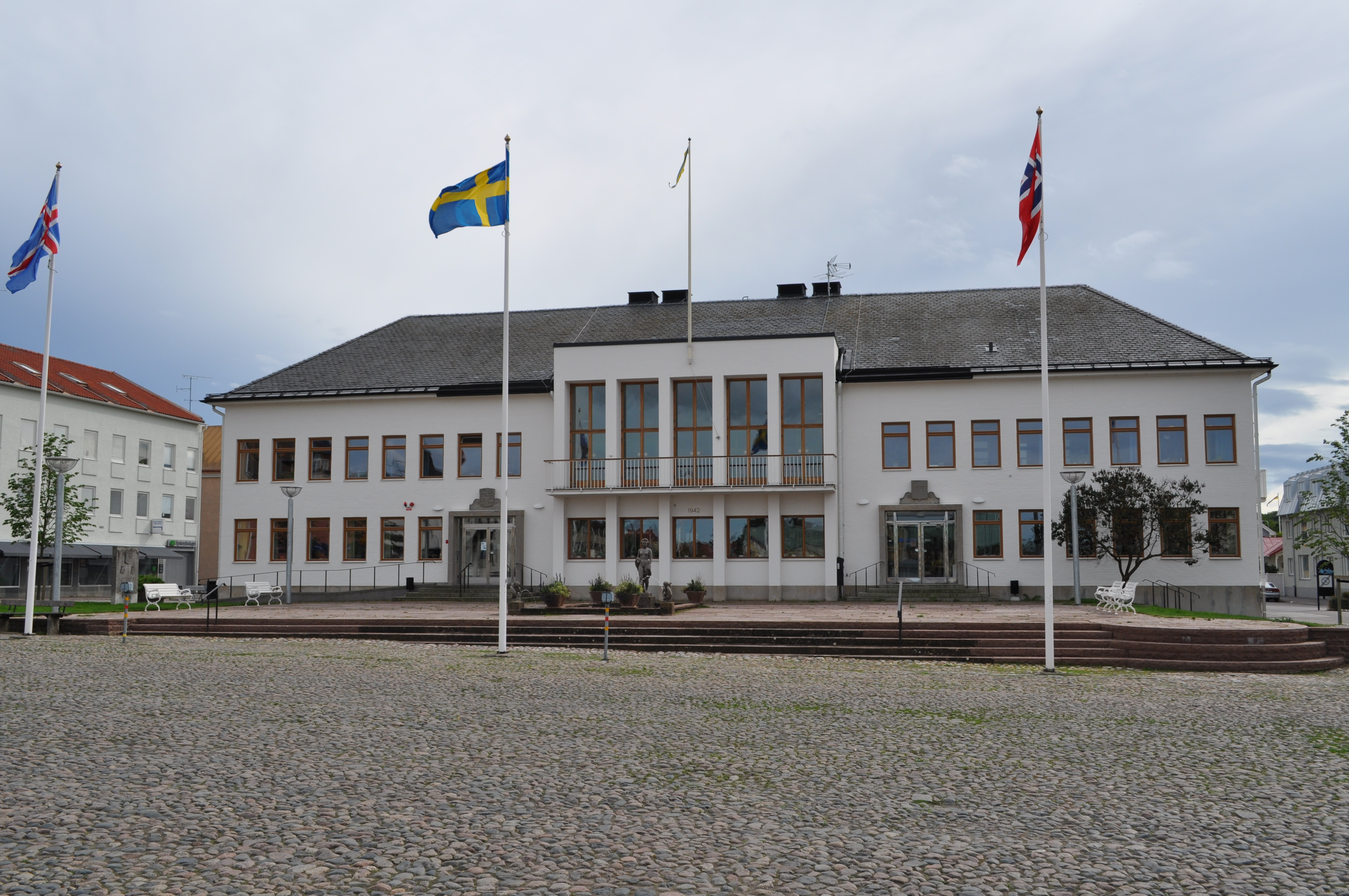 Borgholm, town hall-municipal building from 1942 - Stadtshuset